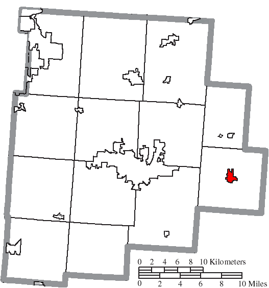 Map of the municipal and township boundaries of Fairfield County, Ohio, United States, as of the 2000 census, with the location of the village of Bremen highlighted. Township borders are shown only in unincorporated areas in order to differentiate incorporated and unincorporated areas more clearly.